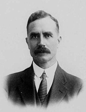 "United States Passport Applications, 1795-1925," database with images, FamilySearch ( : 16 March 2018), Louis Francescon, 1920; citing Passport Application, Illinois, United States, source certificate #46665, Passport Applications, January 2, 1906 - March 31, 1925, 1240, NARA microfilm publications M1490 and M1372 (Washington D.C.: National Archives and Records Administration, n.d.).